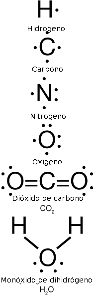 Spanish translation of Image:Chem lewisstructures.png, used at Lewis structure